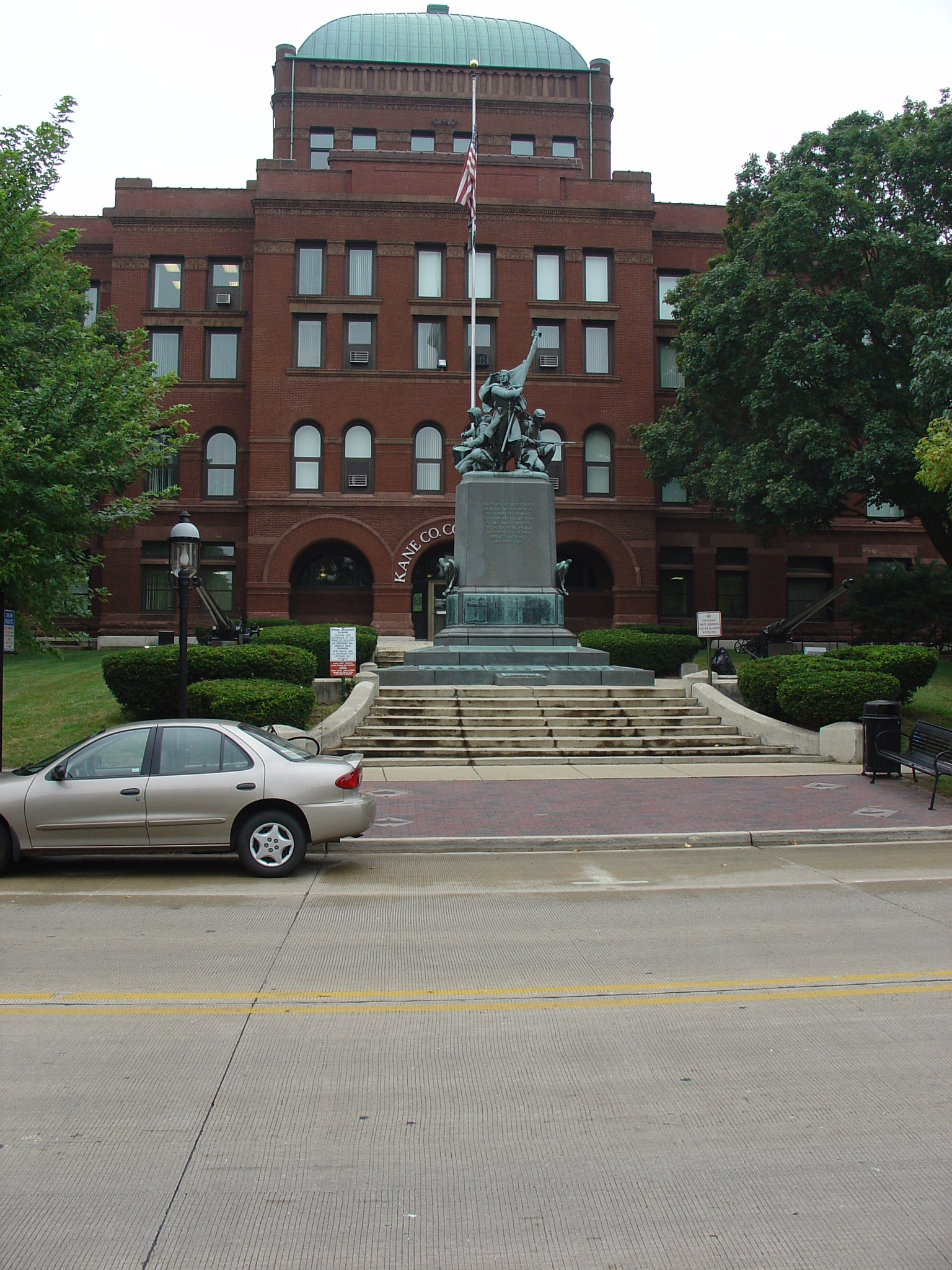 Kane County Court House on 3rd Street in Geneva, Illionois. The guns in the War Memorial are reportedly one from each of the two New Orleans class cruisers of the U.S. Navy.